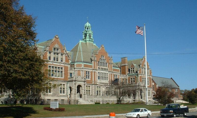 Fairhaven High School, view from Huttleston Avenue (US-6).